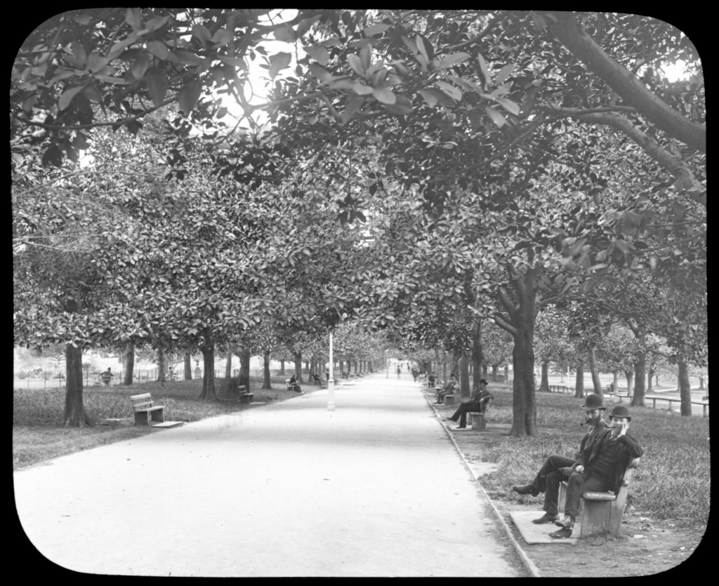 [between 1912 and 1951] Title devised by cataloguer based on accompanying documentation.; Part of the Australian Inland Mission collection.; Attribution is uncertain.; Duplicate image located at PIC/11584/9 LOC Cold Store PIC WIL; Condition:Good.; Inscriptions: Lovers Walk Hyde Park, Sydney.30,044. GWW.; "G.W.W."; Also available in an electronic version via the Internet at: .au/nla.pic-an24616751. Persistent URL .au/nla.pic-an24616751